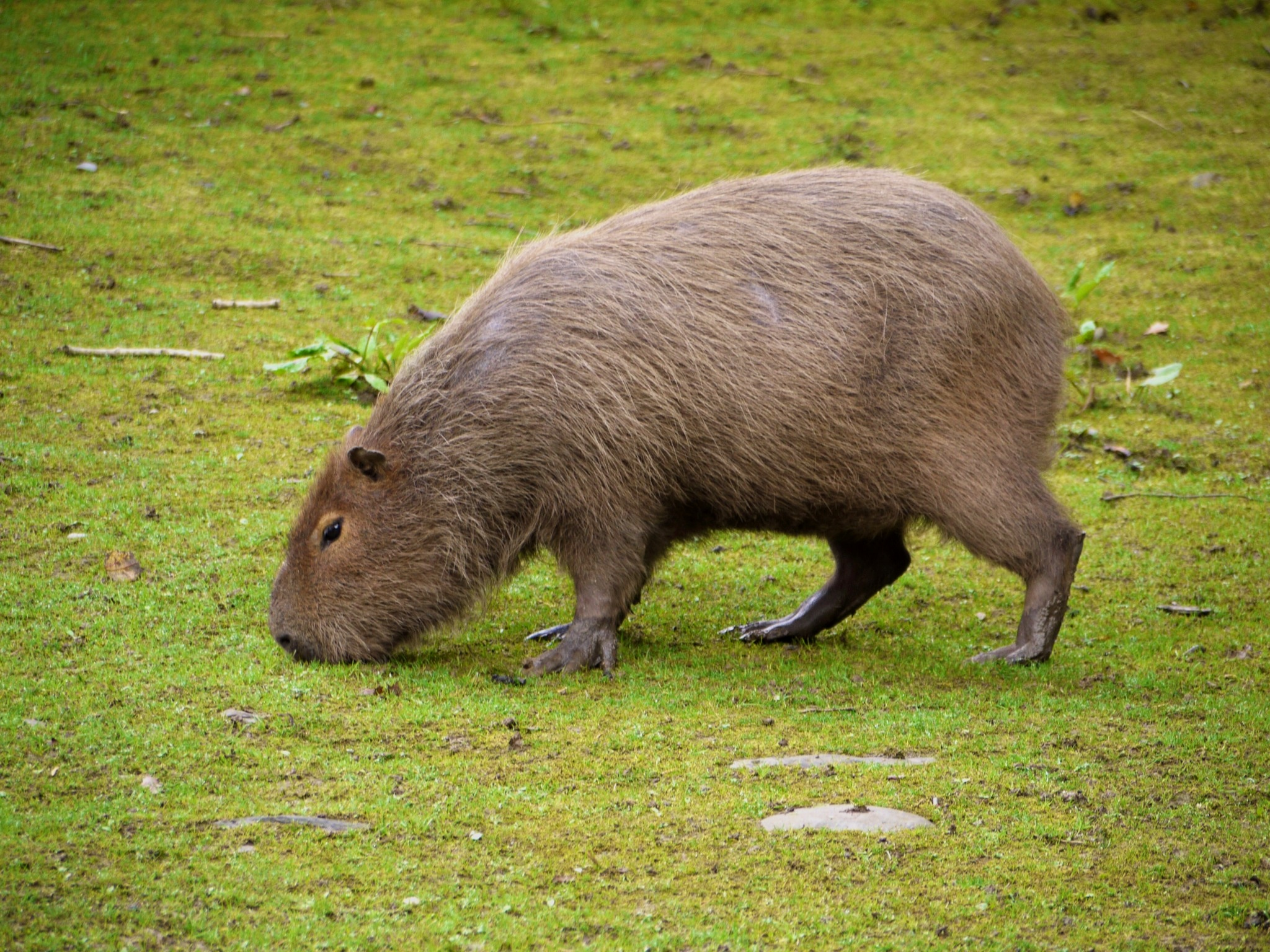 Capybara (Hydrochoerus hydraecheris).